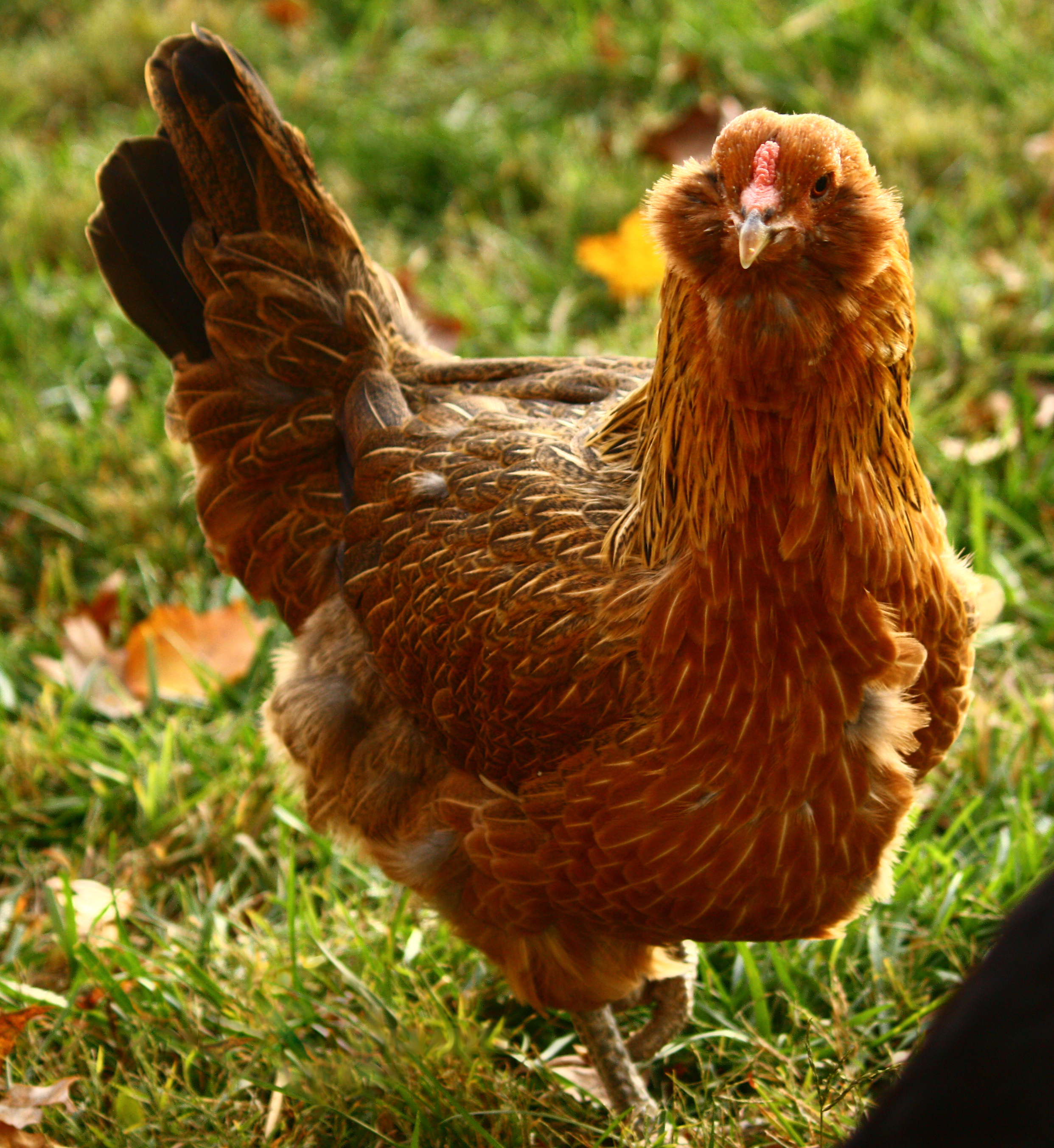 Gem is an Easter Egger from Ideal Poultry, originally sold as a Ameraucana.